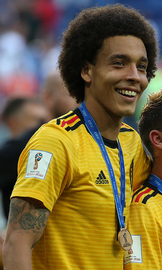 Belgium association football players Axel Witsel (left) and Dries Mertens (right) celebrate following Belgium's win in the third place play-off.